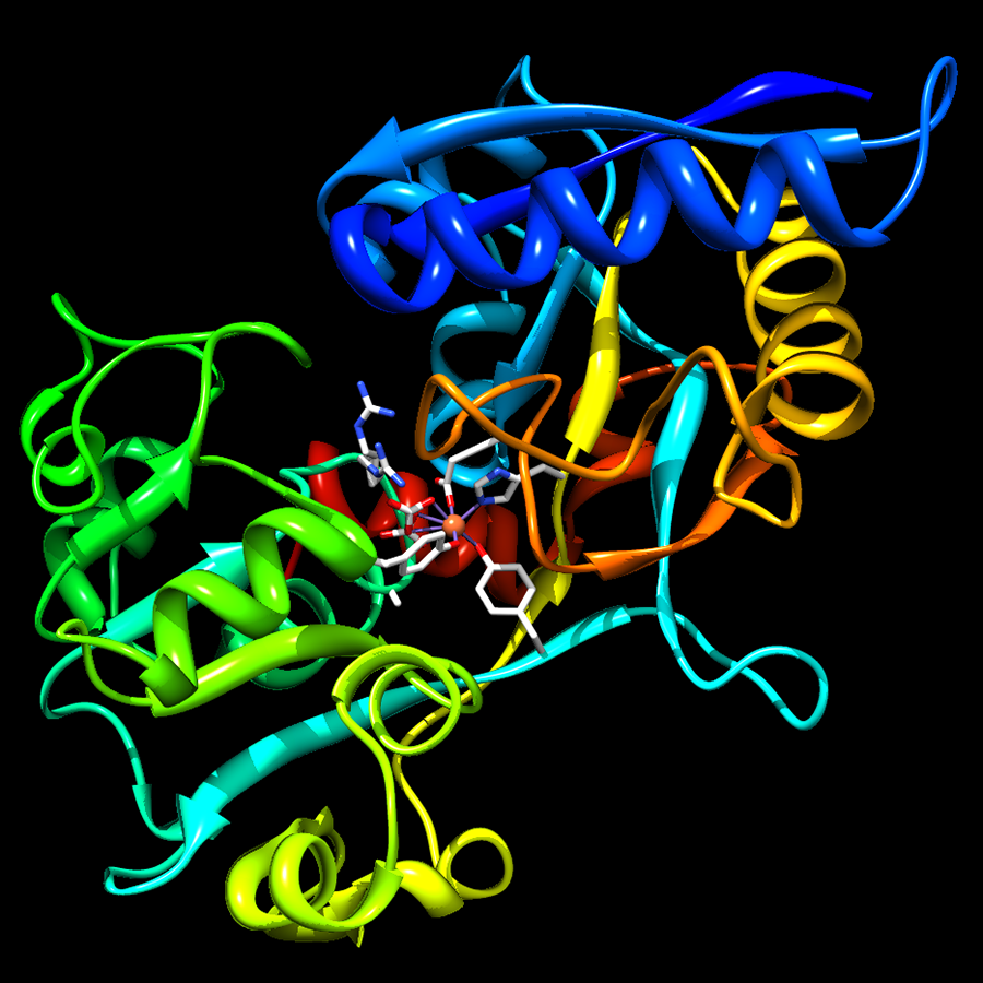 Molecular graphics images were produced using the UCSF Chimera package from the Resource for Biocomputing, Visualization, and Informatics at the University of California, San Francisco (supported by NIH P41 RR001081). PDB rendering based on 1a8e.